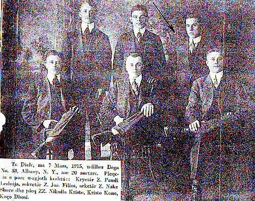 Board of Vatra association branch, Nr. 38 ALBANY, N.Y.